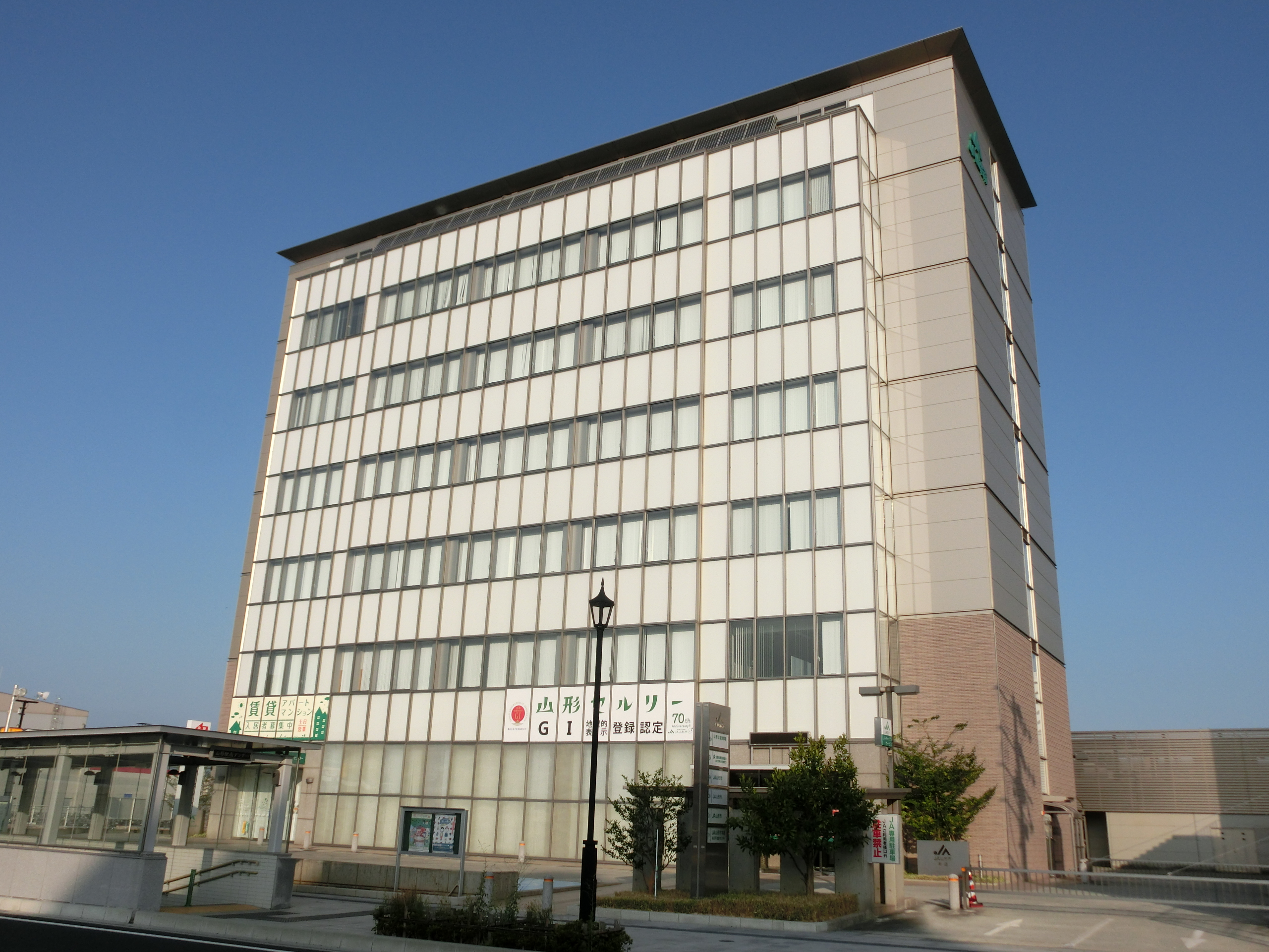 JA Yamagata-shi Headquarters